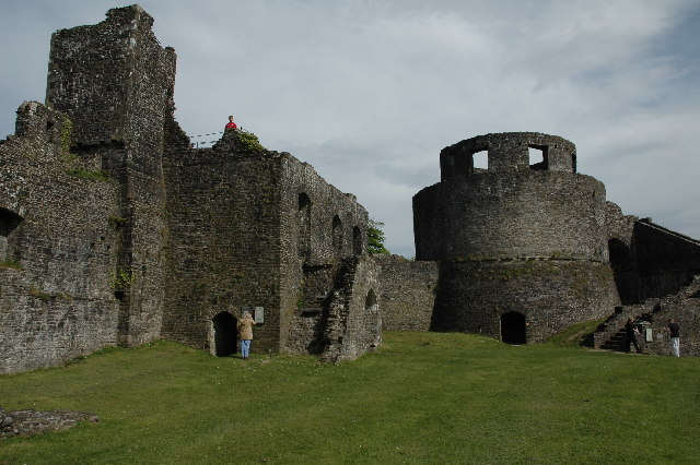 Dinefwr Castle.